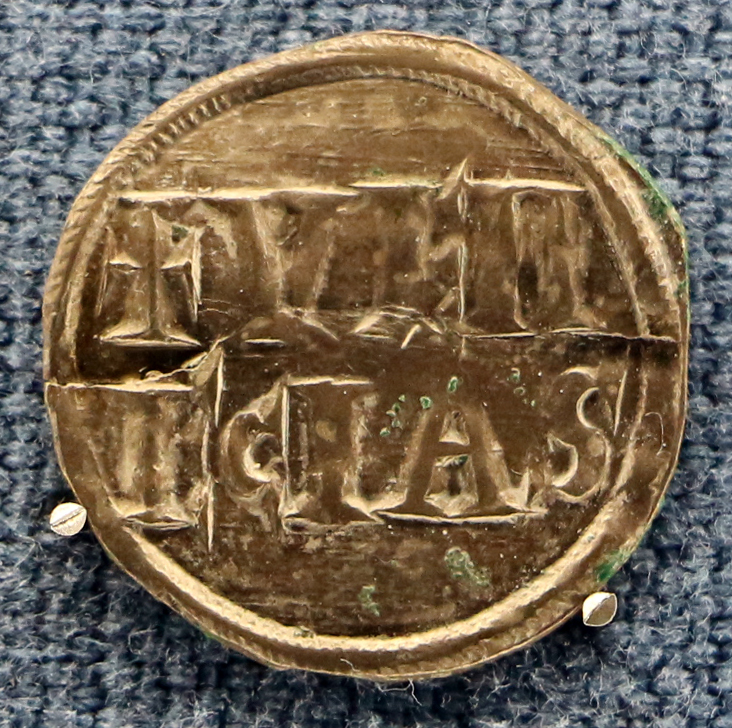 coins in Palazzo Blu (Pisa)